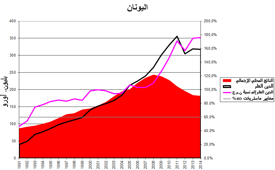 Greece: GDP, gross public debt in bill. Euro and in relation to GDP in %